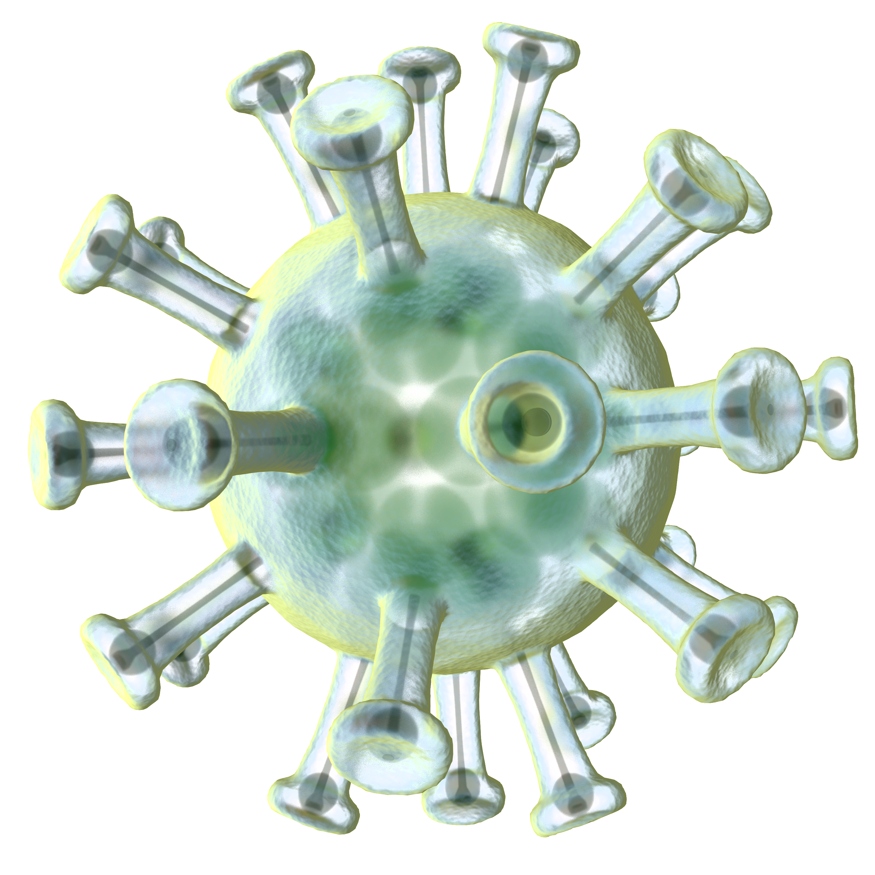 3D-illustration of a single Corona virus Covid-19 particle with alpha.